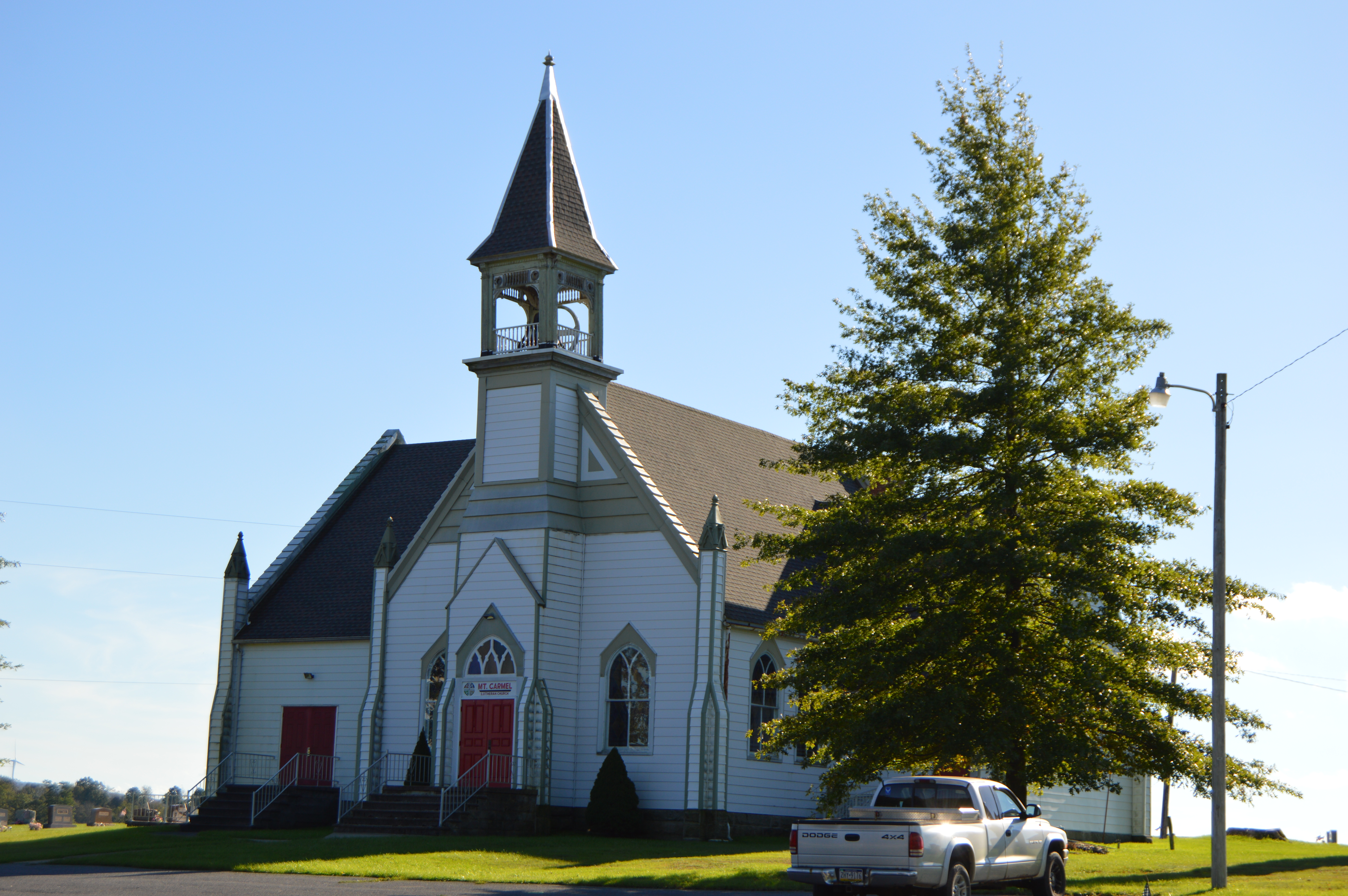 Front of Mount Carmel United Methodist Church, located on Pennsylvania Route 160 at McKenzie Hollow Road in Larimer Township, Somerset County, Pennsylvania, United States.